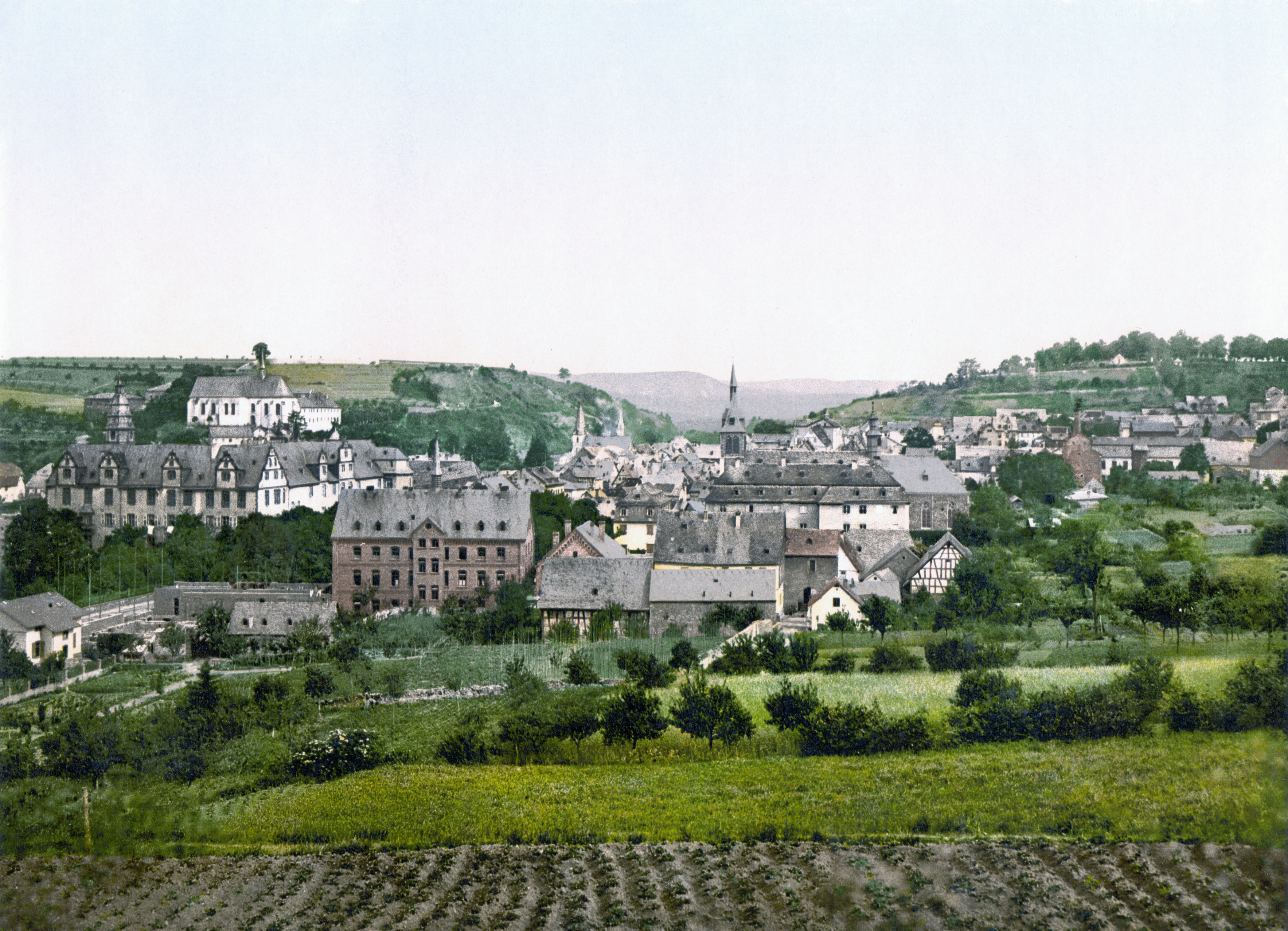 Stadt Hadamar (Germany) about 1900